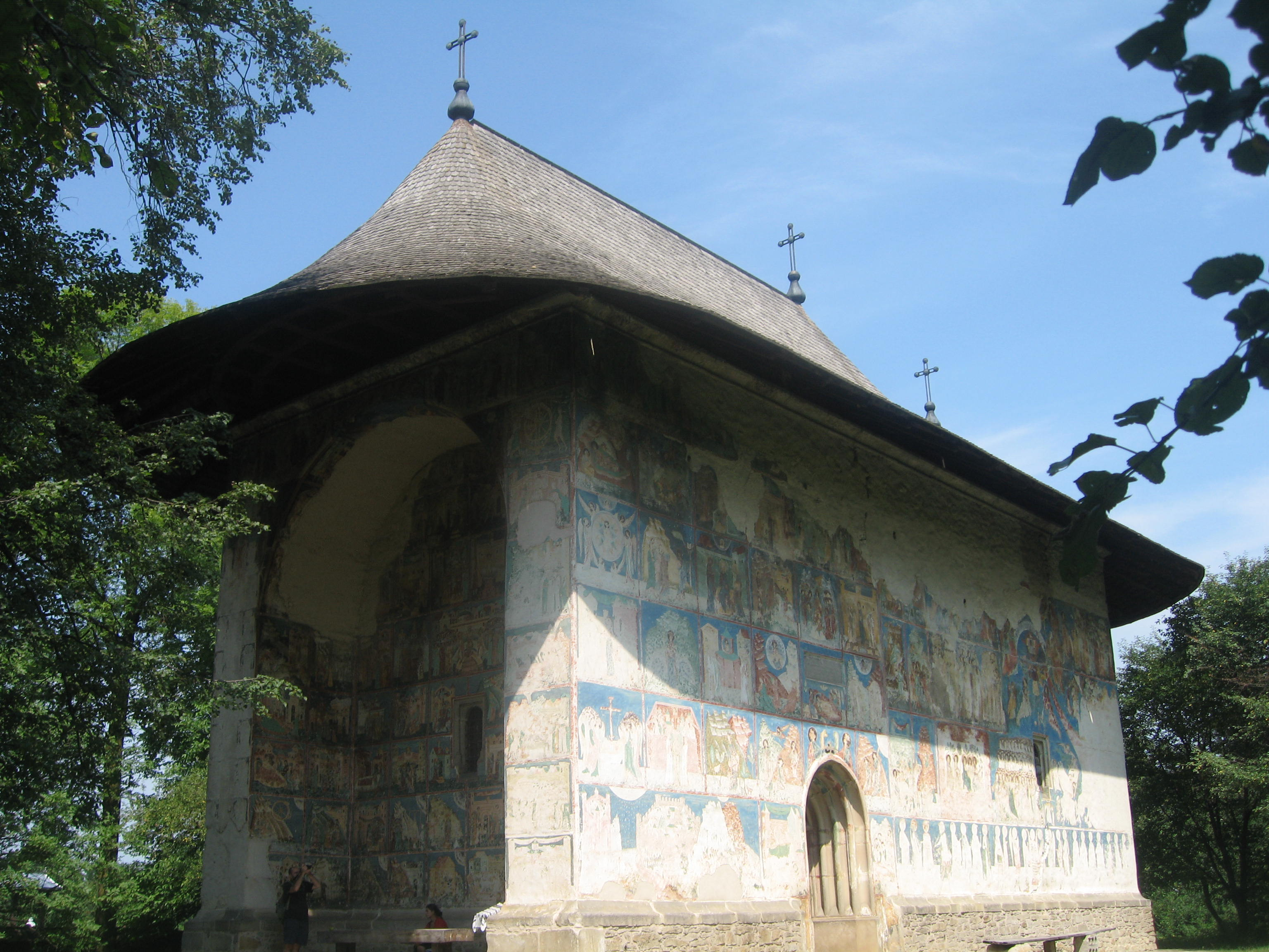 Arbore Monastery